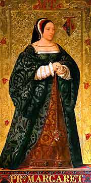 A picture of Margaret Tudor, exhibited in the English Parliament.